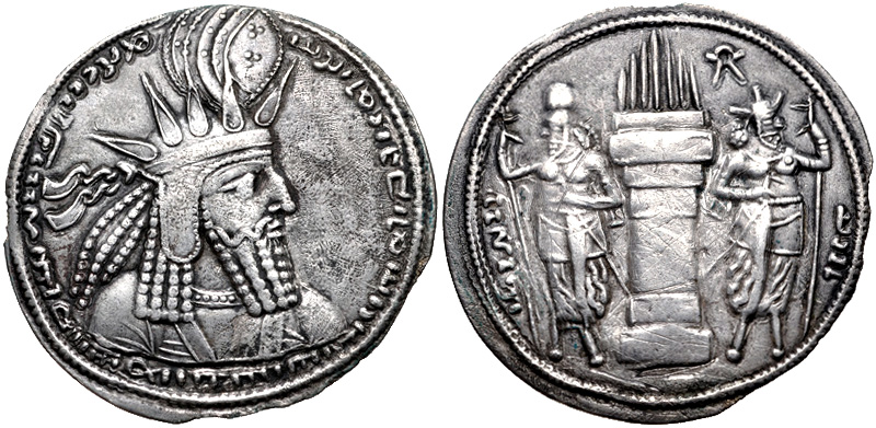 Coin of the Sasanian king Bahram I.